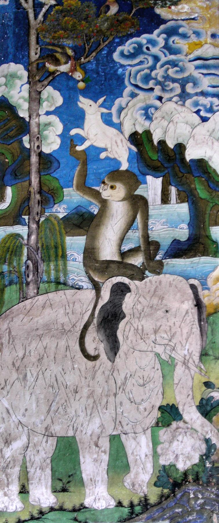 Four Harmonious Animals, wall painting, Gangtok, Sikkim. I corrected the original photo in ImageJ for inhomogenous illumination and uploaded a region of interest. I am ready to upload the original file (should include exif data) if anybody should question that this is my own work.